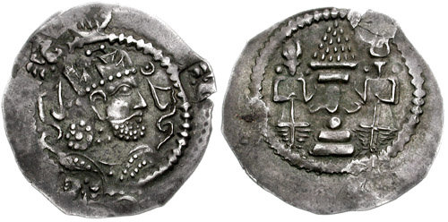 Coin of Khosrau I minted in Tokharistan (Bactria).